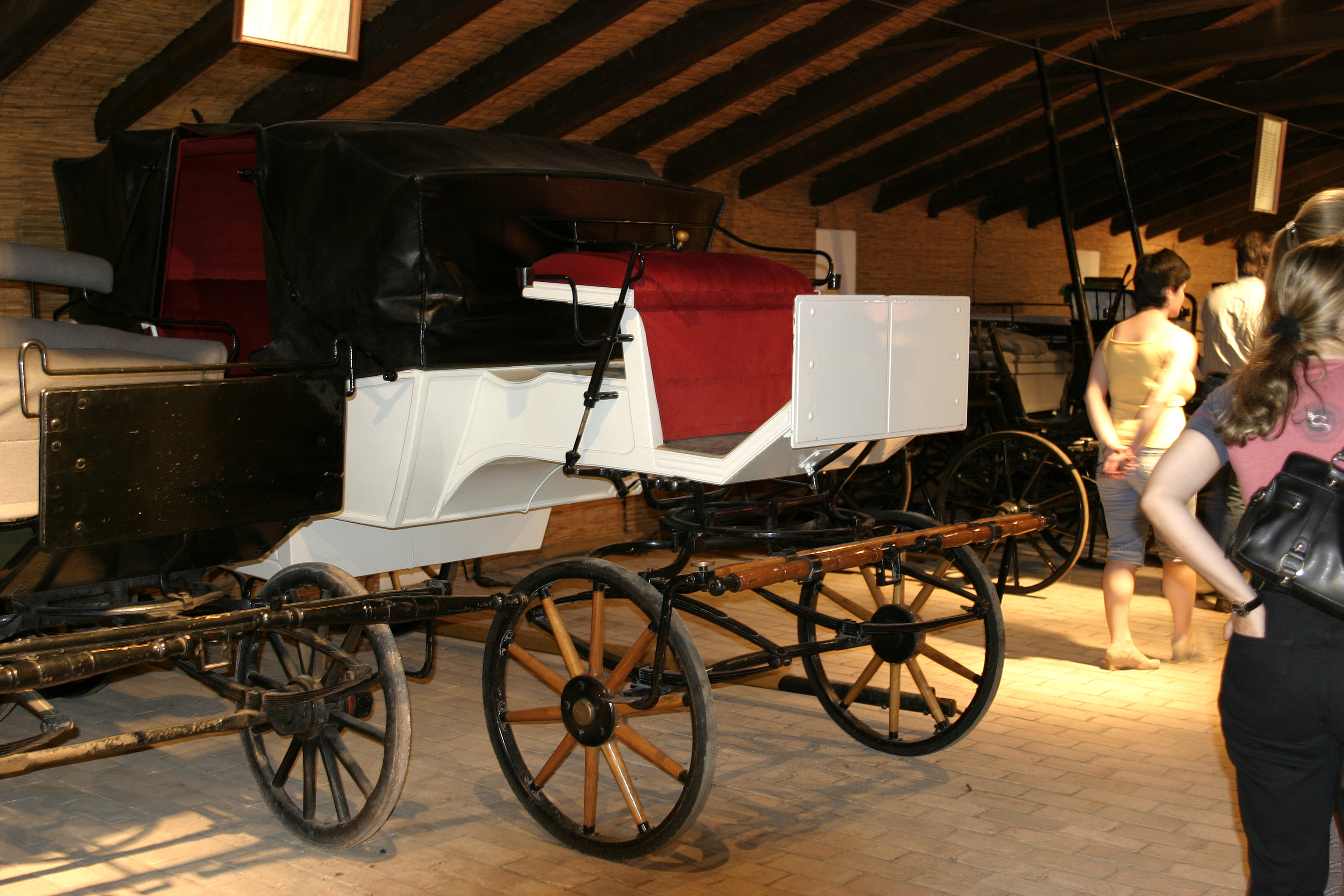 Carriage wagon at the national stud in Bábolna/Hungary